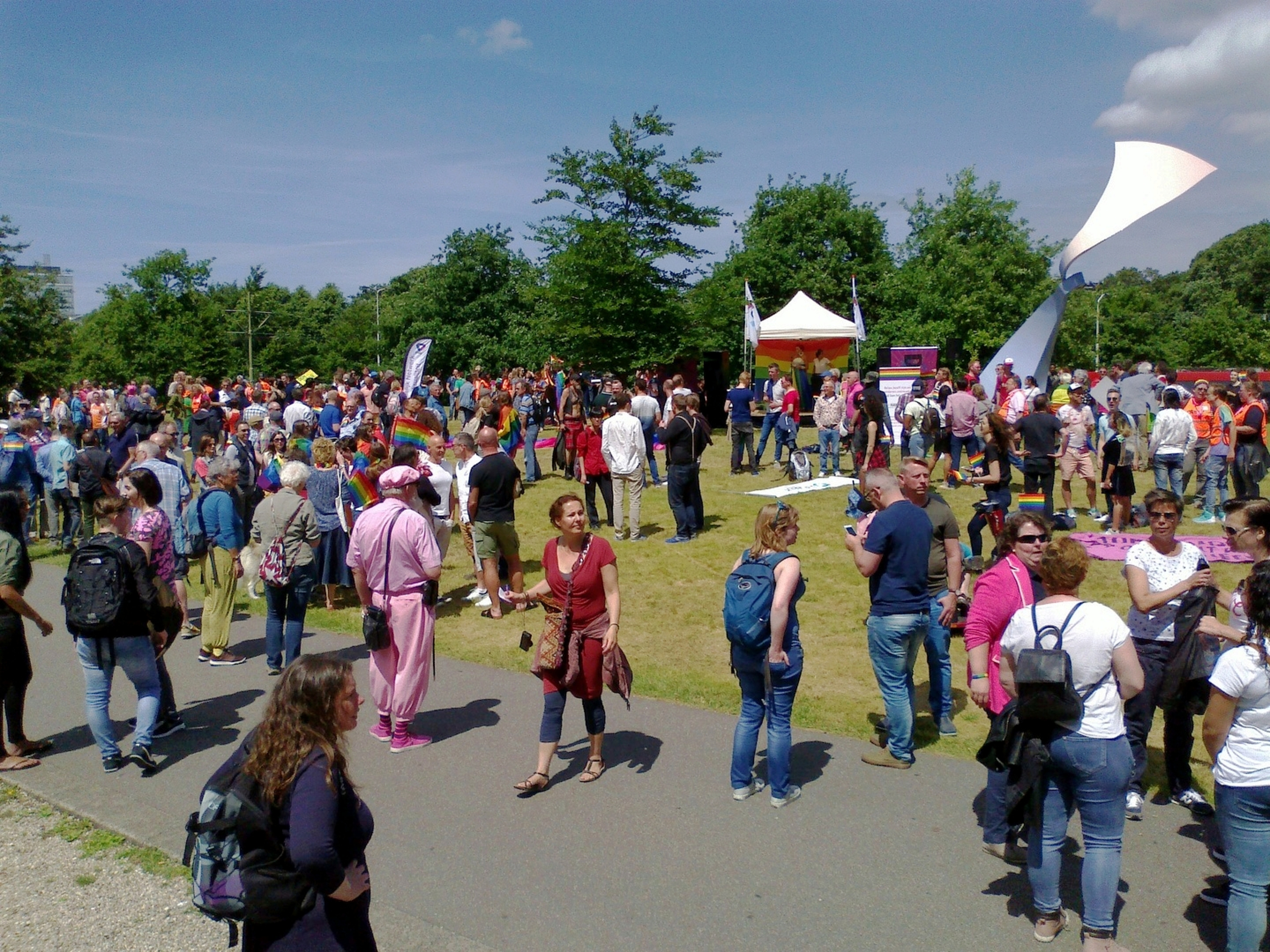 Pride Walk The Hague 2017. The pride walk started at the International Homomonument in The Hague, then went through the old city center and finished at Grote Markt (square), at the 'rainbow festival'. Notably the new mayor of the City of The Hague, Pauline Krikke, participated in the pride walk.